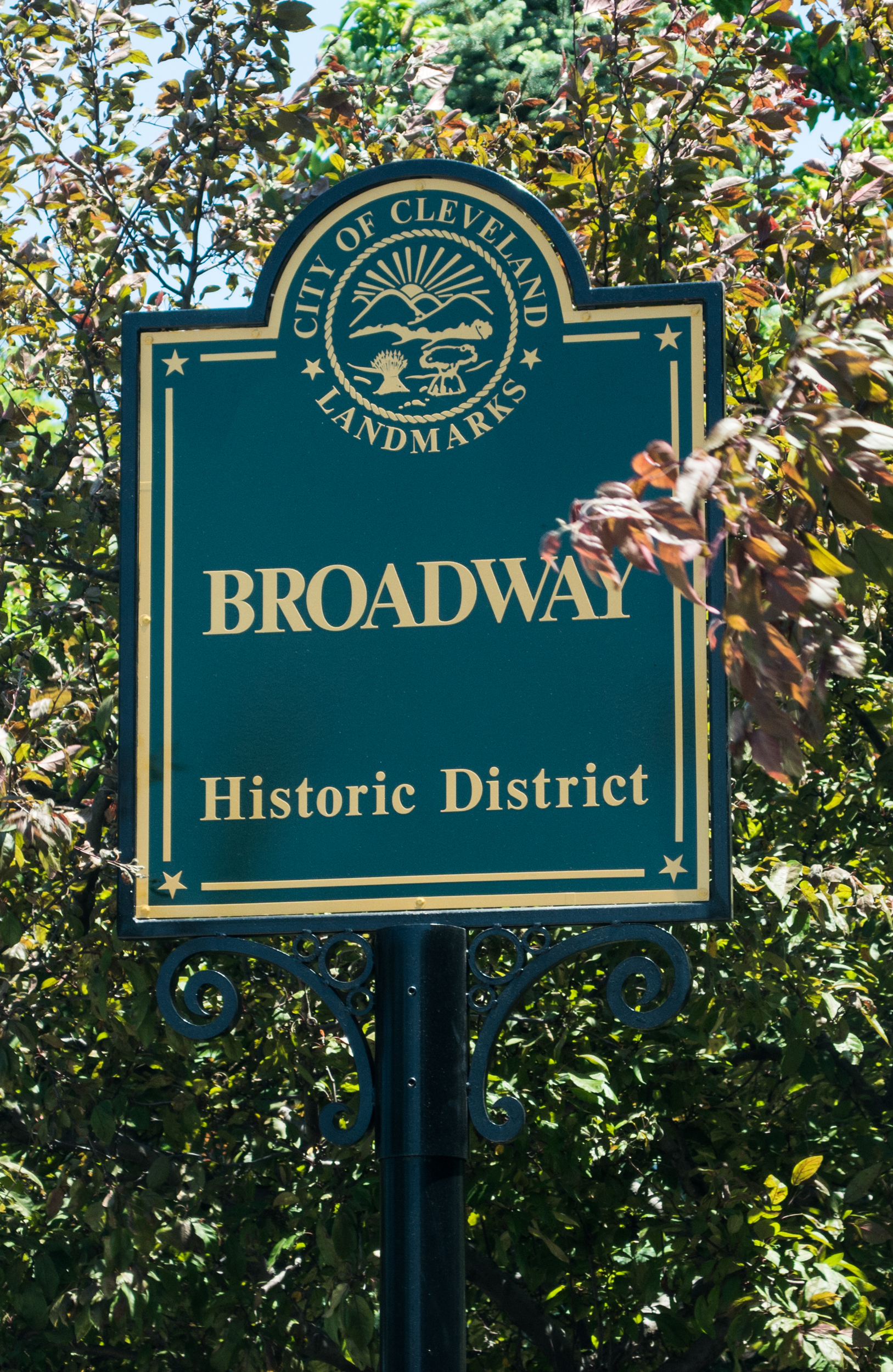 Signage on Hamm Avenue for the Broadway Avenue Historic District in Cleveland, Ohio, in the United States.